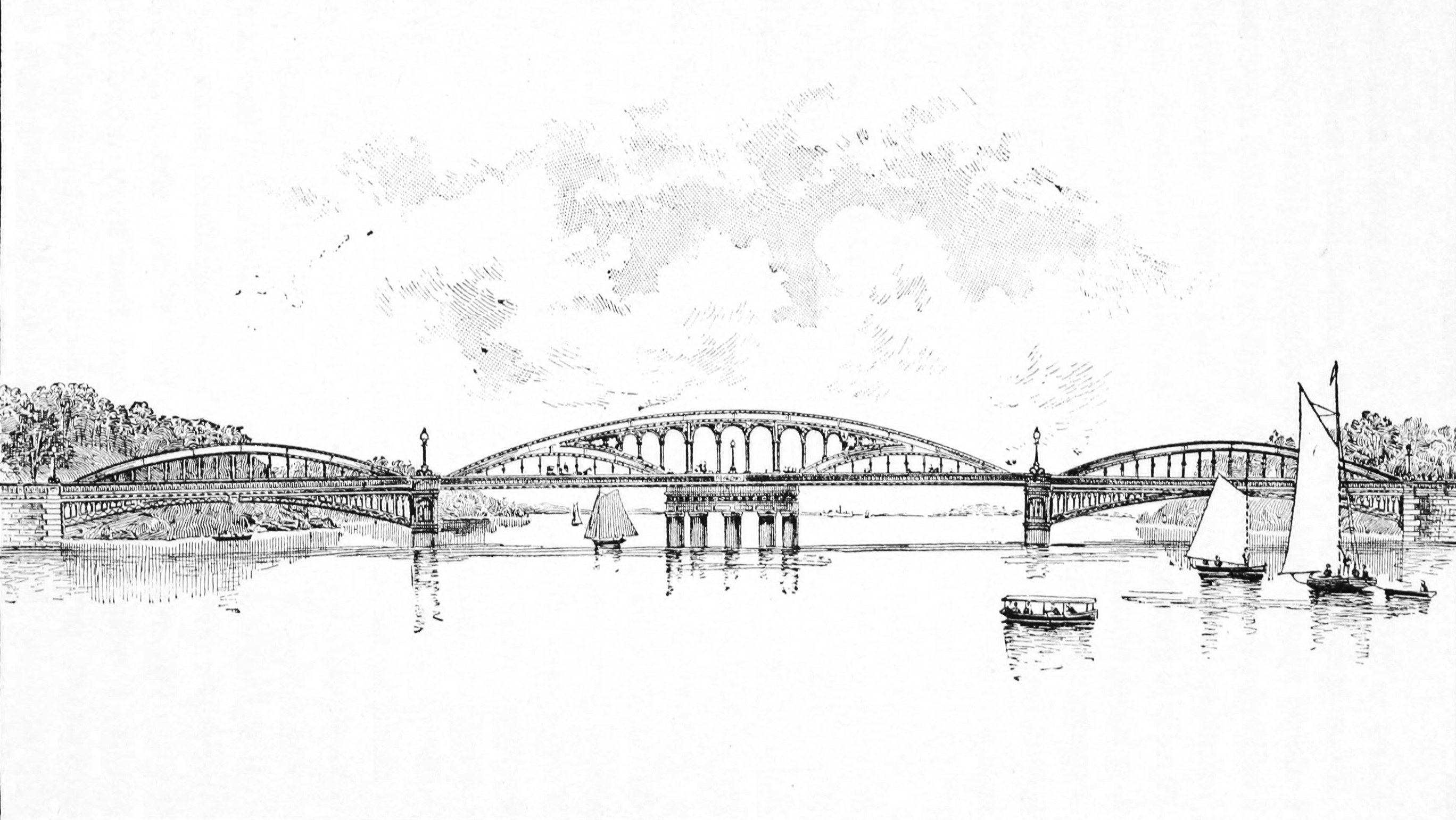 The Third Avenue Harlem Bridge, completed by John Roach's Etna Iron Works by 1868. The 216-foot central section pivoted by steam power to allow tall ships to pass beneath